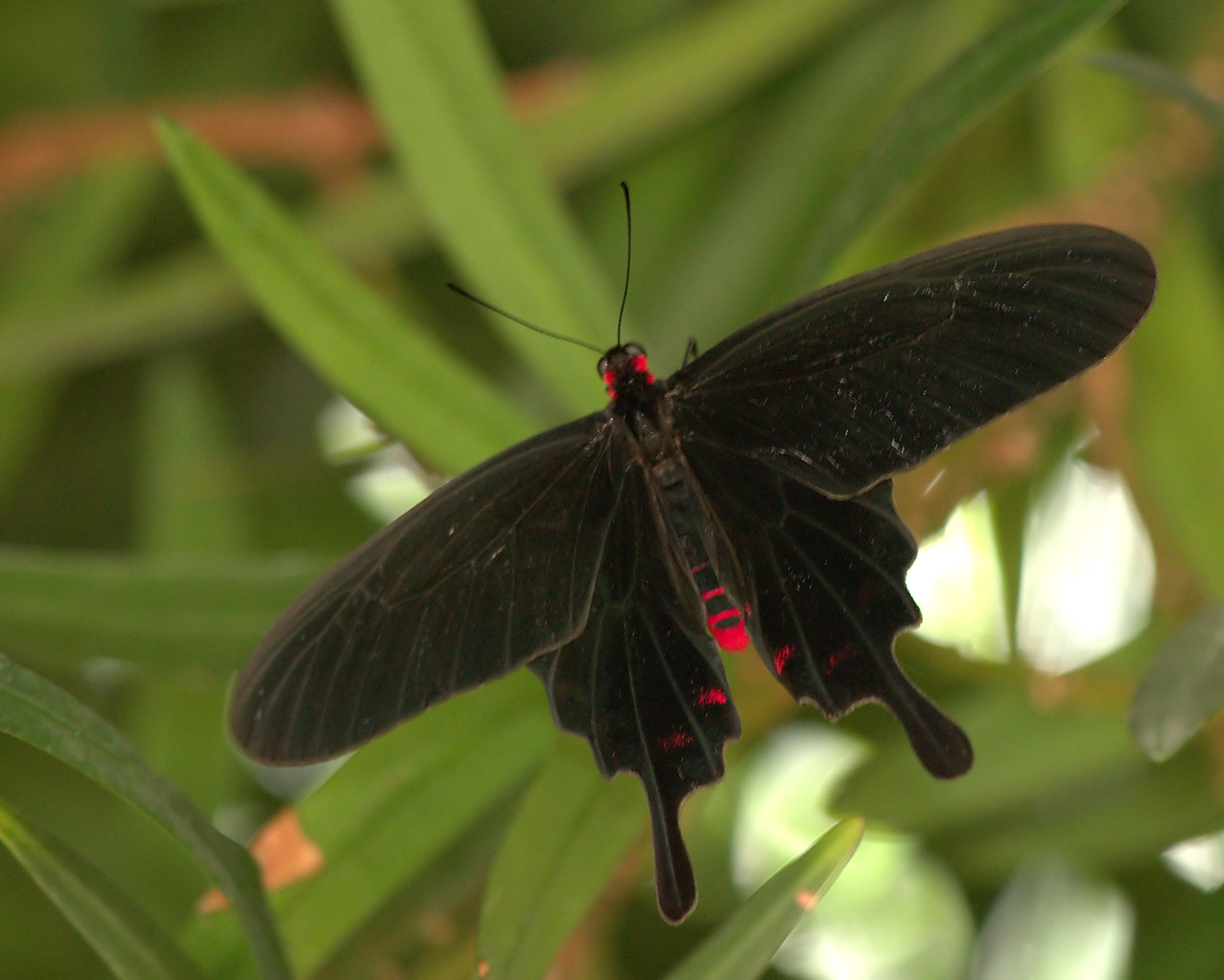 Pink Rose Swallowtail taken at Krohn Conservatory in Cincinnati. Photo by Greg Hume.